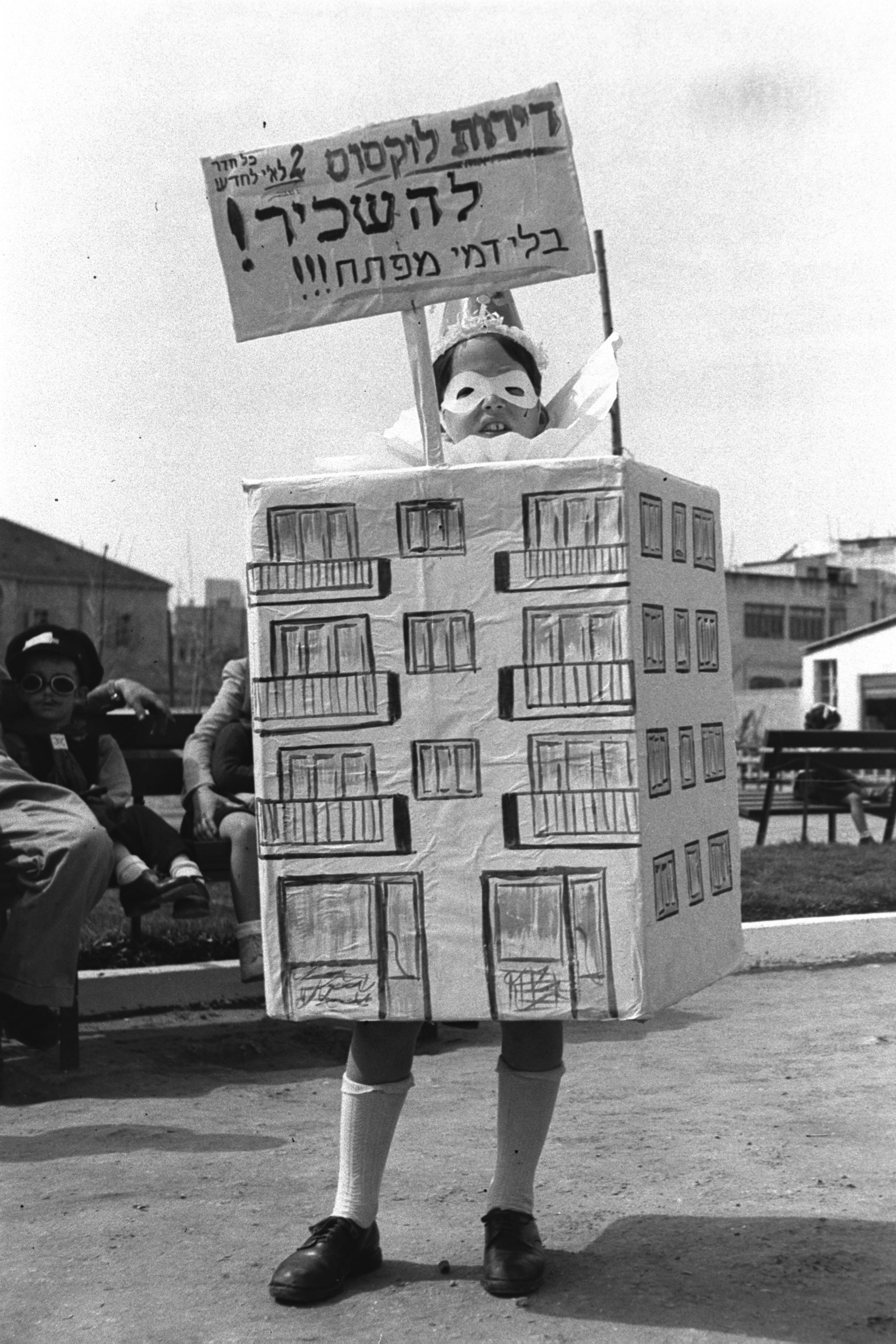 An original purim costume of a house realtor.